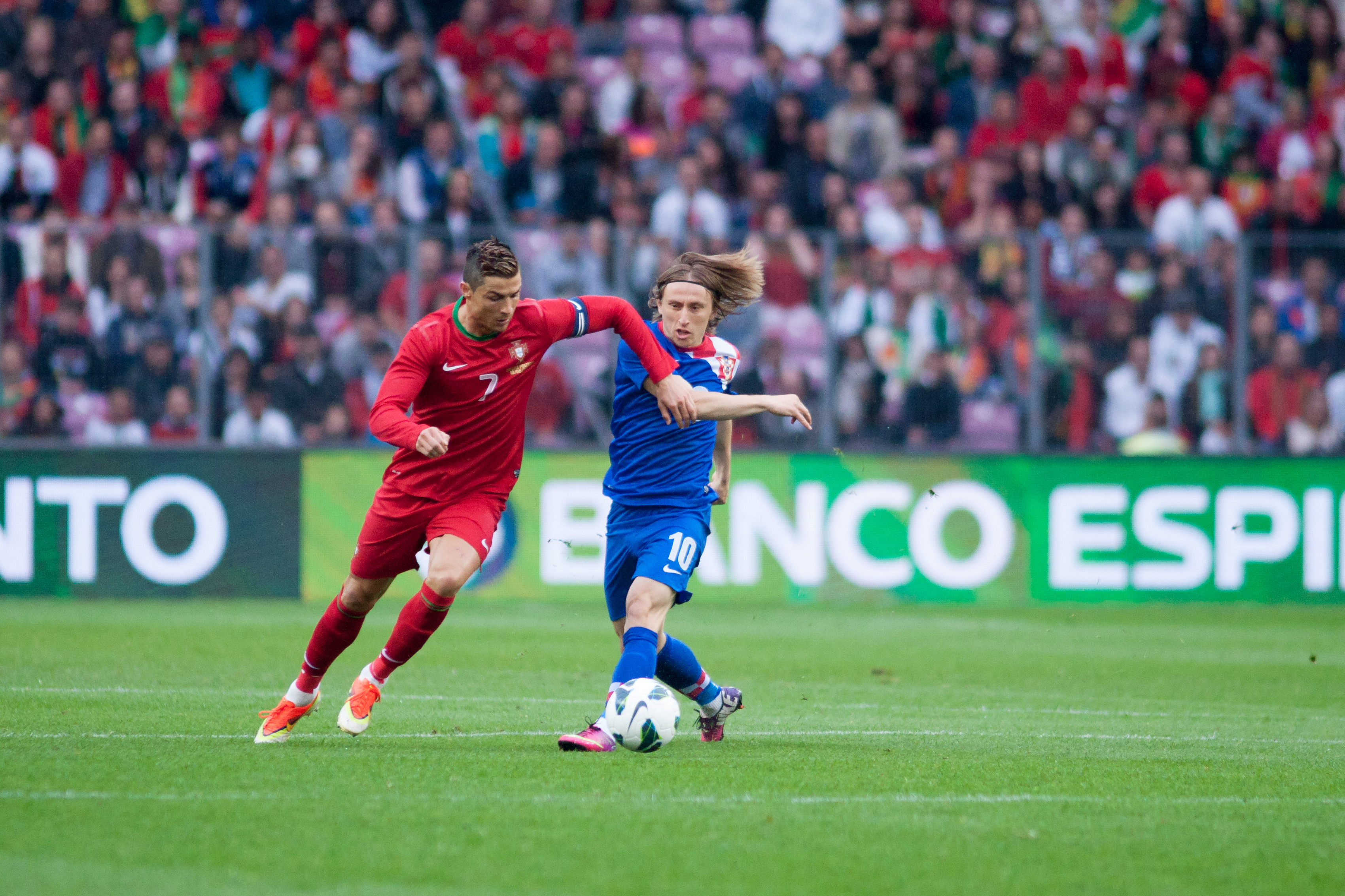 Croatia vs. Portugal, 10th June 2013